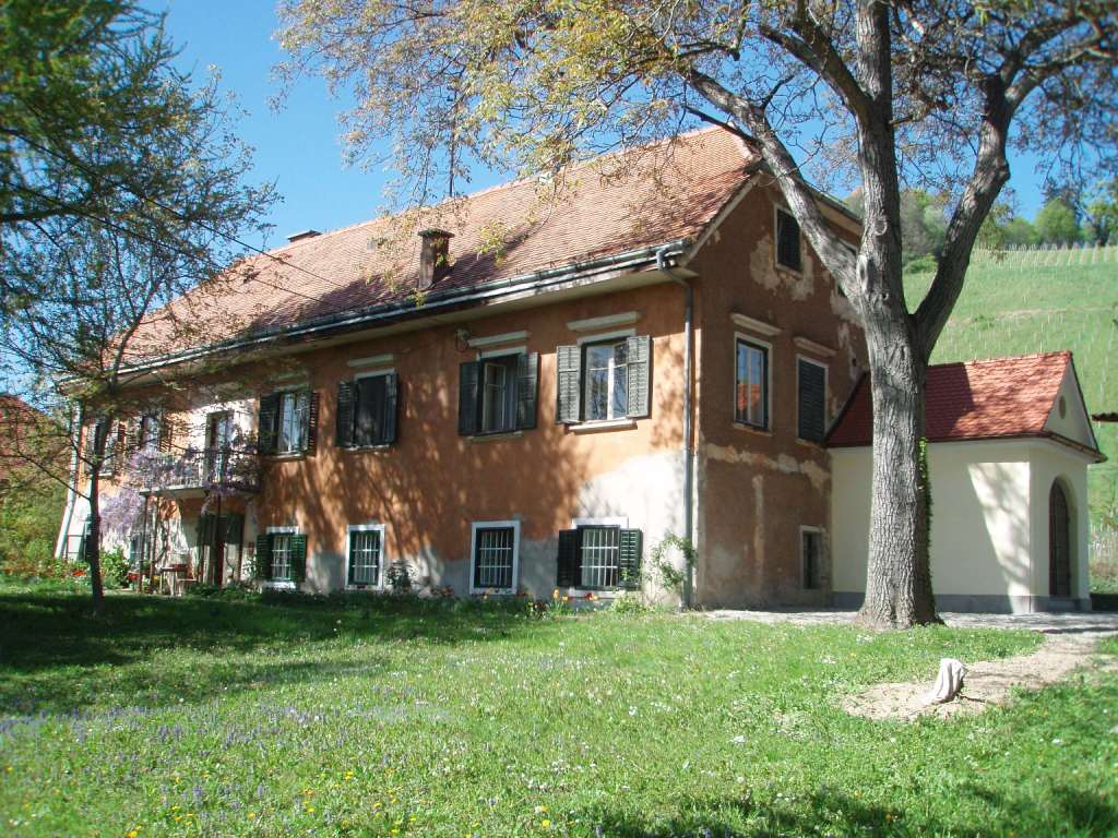 Home of Cvetana Priol, slovenian candidate for saint